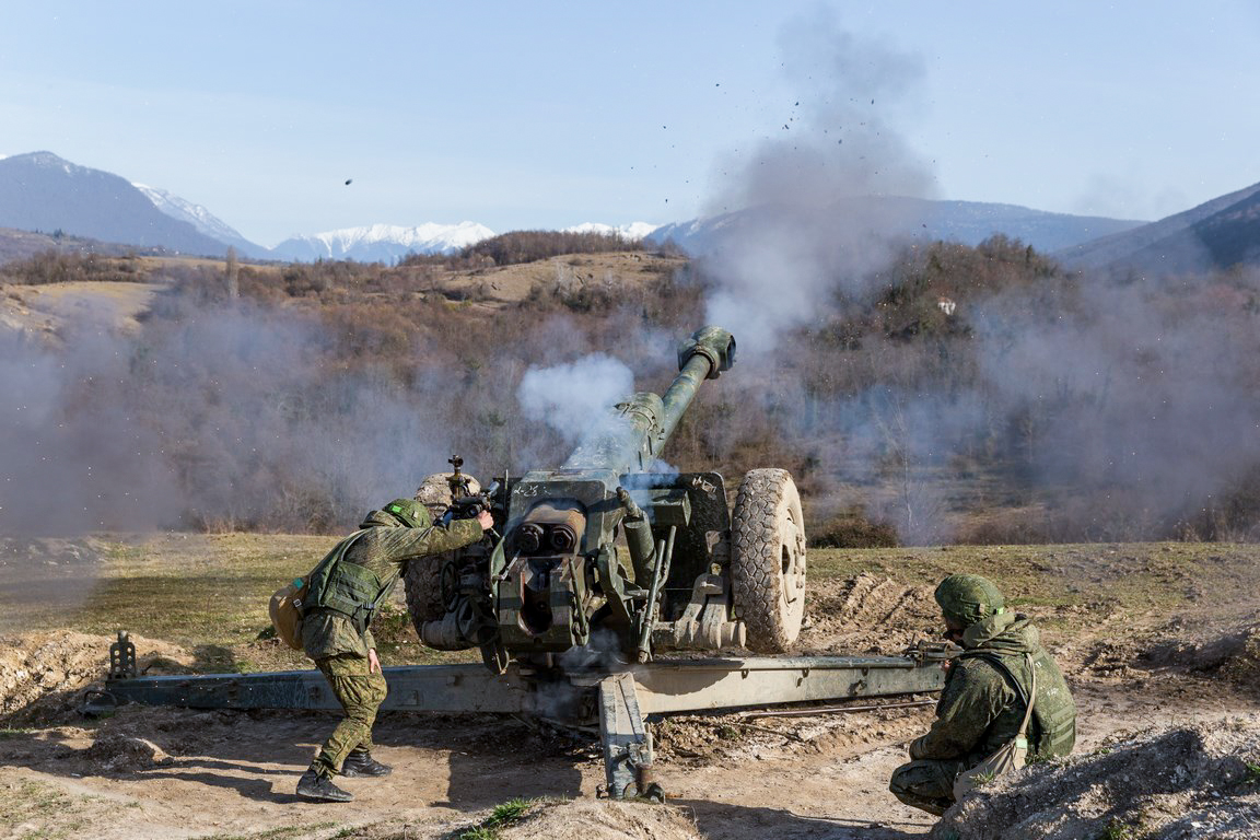 The combat firing of the Russian 7th military base.